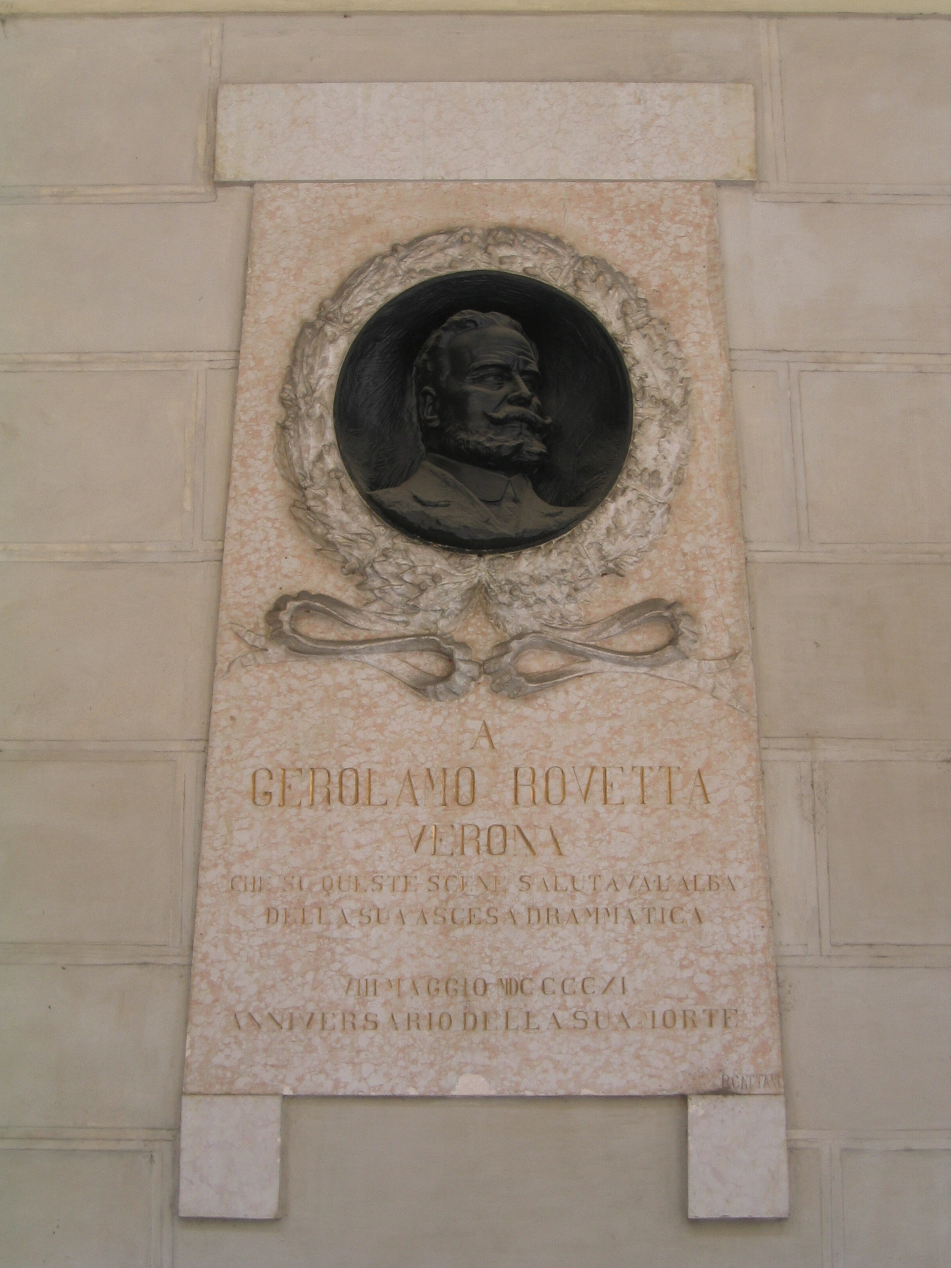 Gerolamo Rovetta